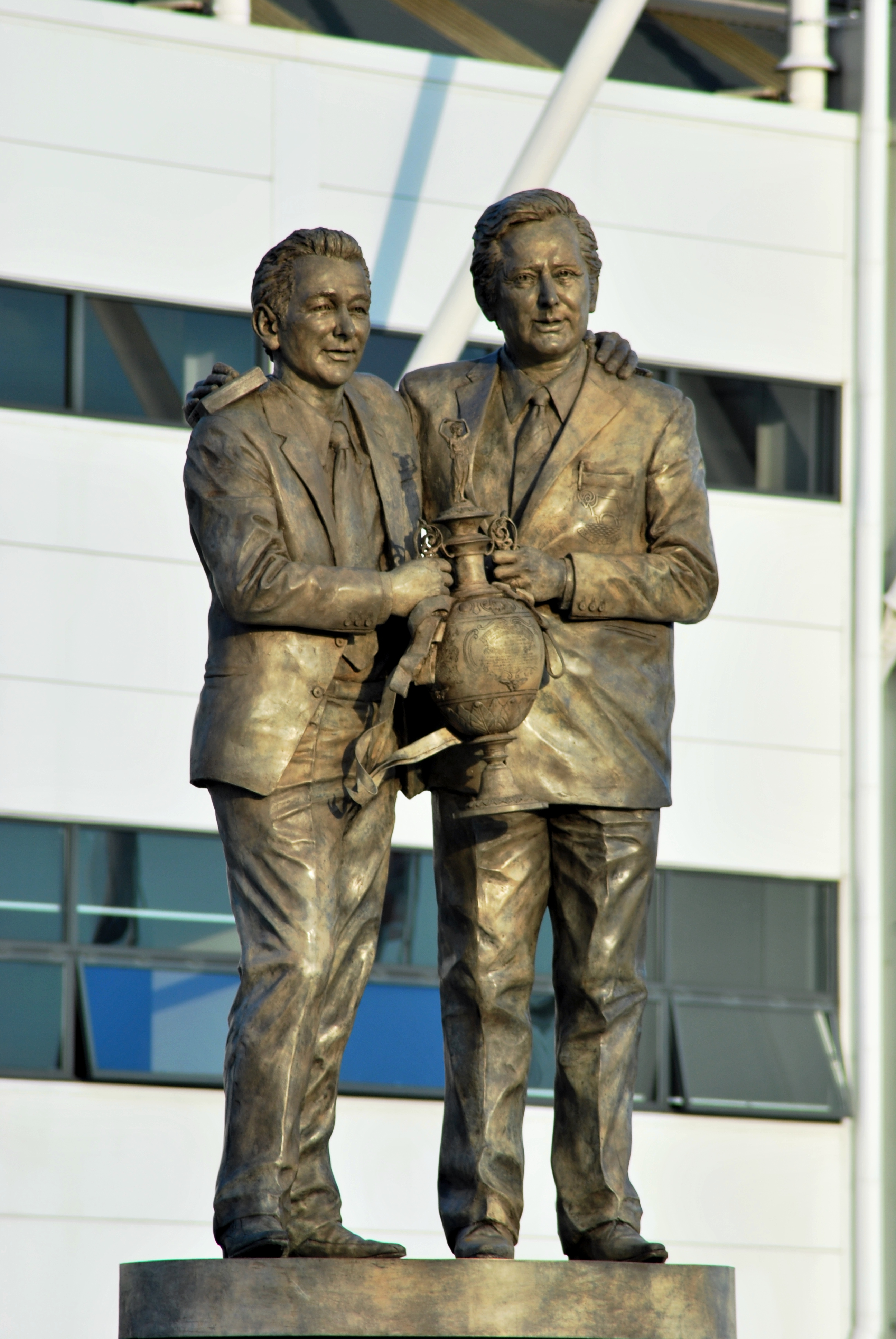 Statue of Brian Clough and Peter Taylor outside Pride Park Stadium, Derby.